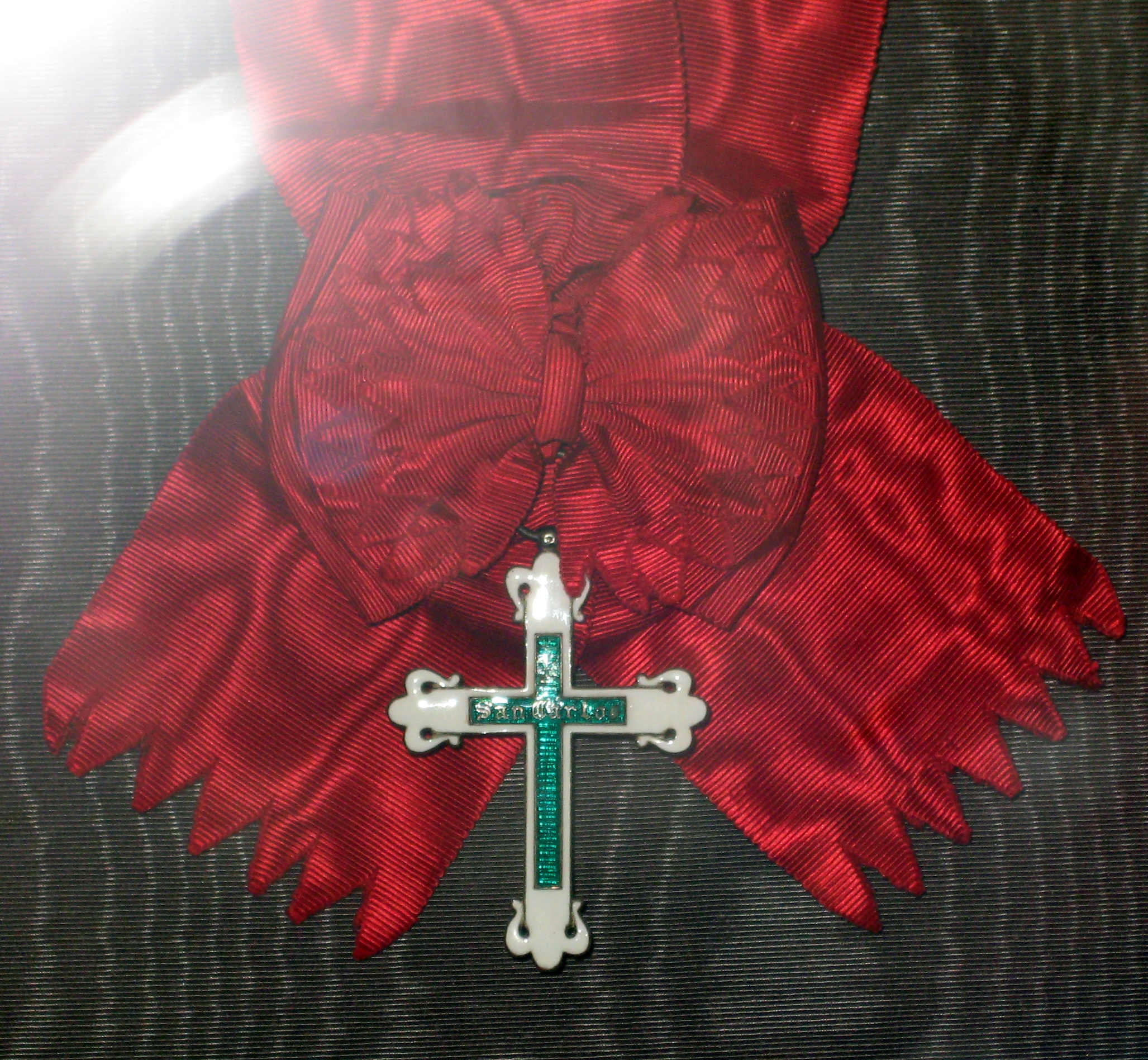 Badge of the order of Saint Charles and ribbon. Belonged to the empress Maria Alexandrovna of Russa. 1865-1866